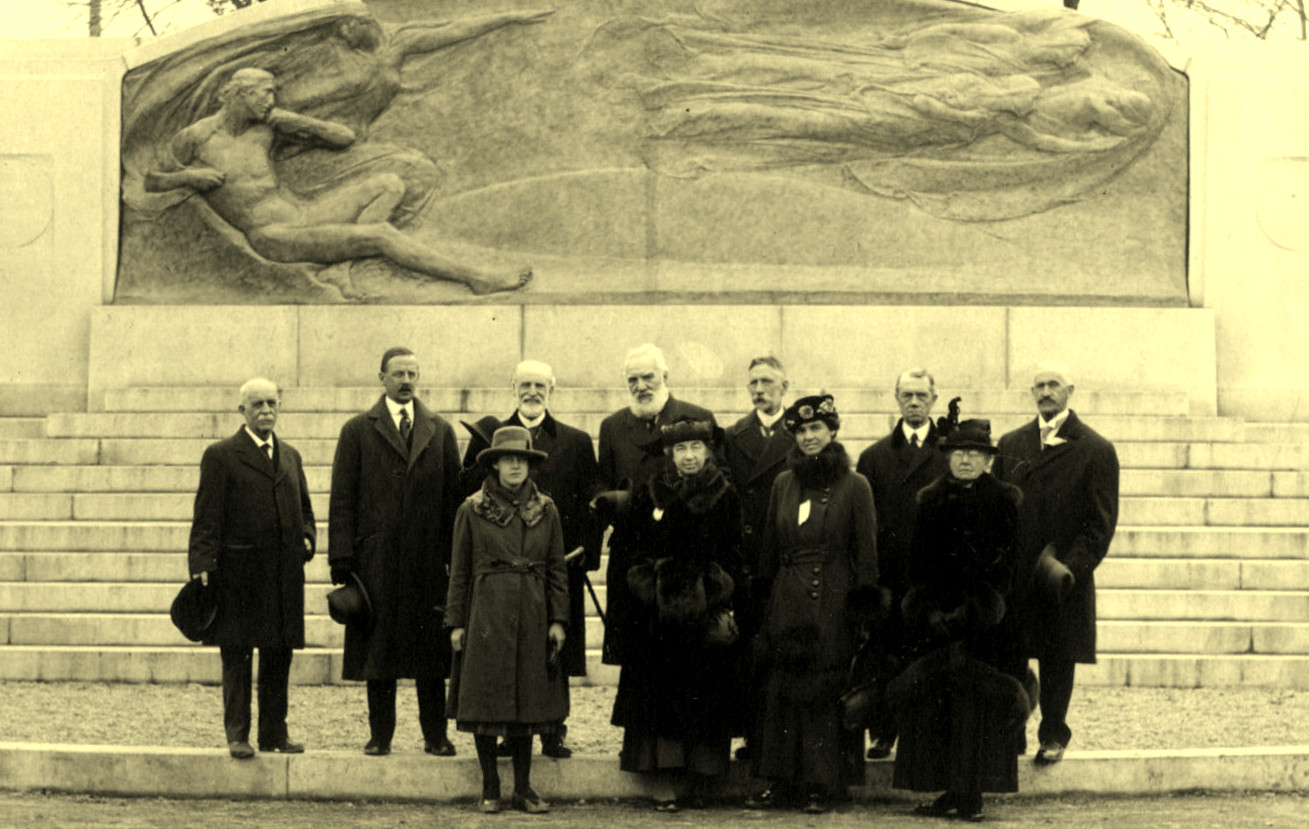 View of the dedication of the Bell Telephone Memorial, including Alexander Graham Bell, members of his family plus committee members, erected to commemorate the invention of the telephone by Bell in Brantford, Ontario, Canada, in the summer of 1874. Rear row: (l to r) three executive members of the Bell Memorial Association, Alexander Graham Bell centre, William Foster Cockshutt, M.P., plus two more Association executive members. Front row: (l to r) Mabel H. Grosvenor (Bell's grand-daughter, later to be Dr. Mabel H. Grosvenor), Mrs. Alexander Graham Bell (Mabel), and Mrs. Gilbert Grosvenor (Elsie - Dr. & Mrs. Bell's eldest daughter), plus one other person.